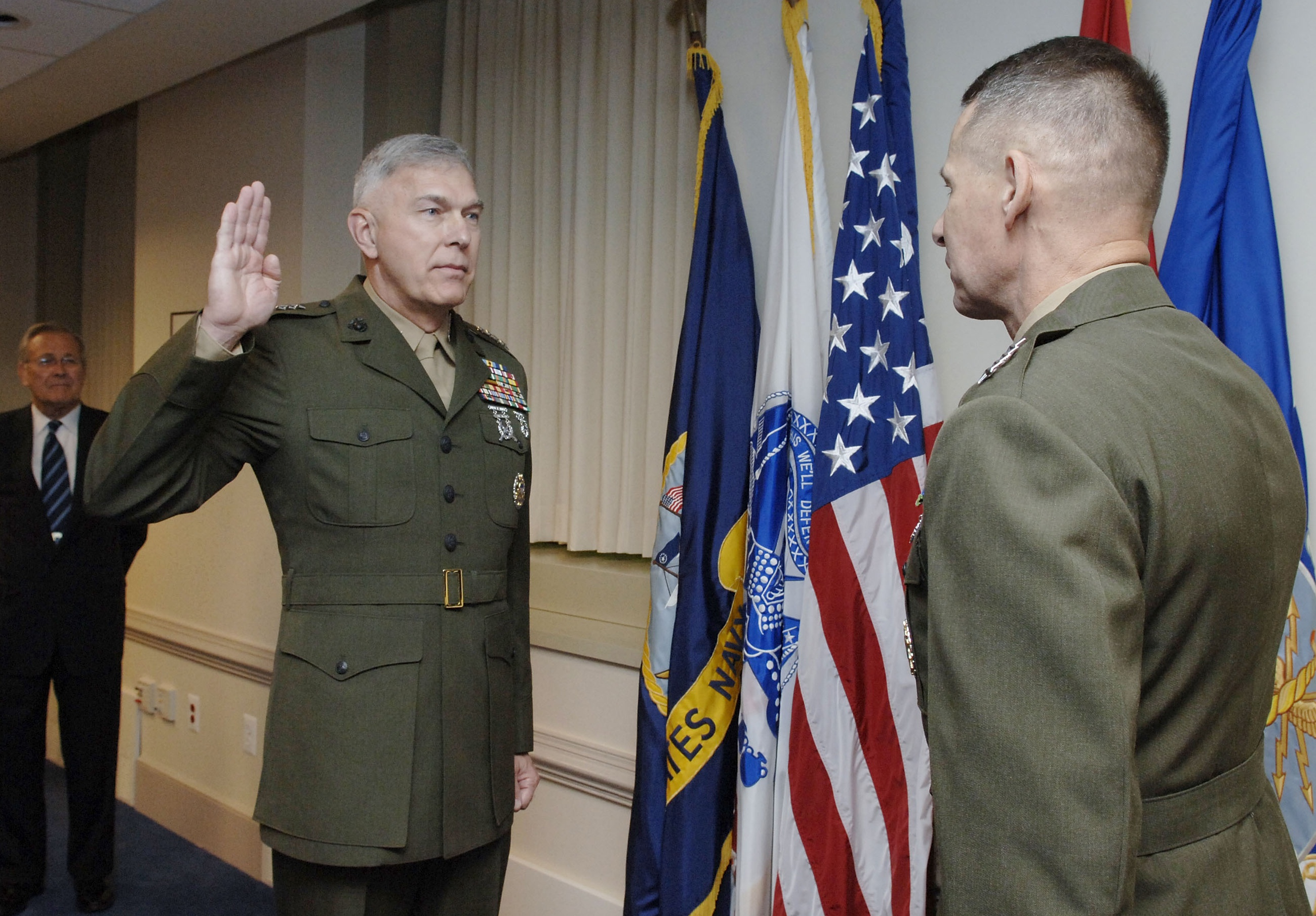 Secretary of Defense Donald Rumsfeld (left) looks on as Chairman of the Joint Chiefs of Staff Gen. Peter Pace (right), U.S. Marine Corps, administers the oath of office to Gen. James T. Conway (center), U.S. Marine Corps, during his promotion ceremony.